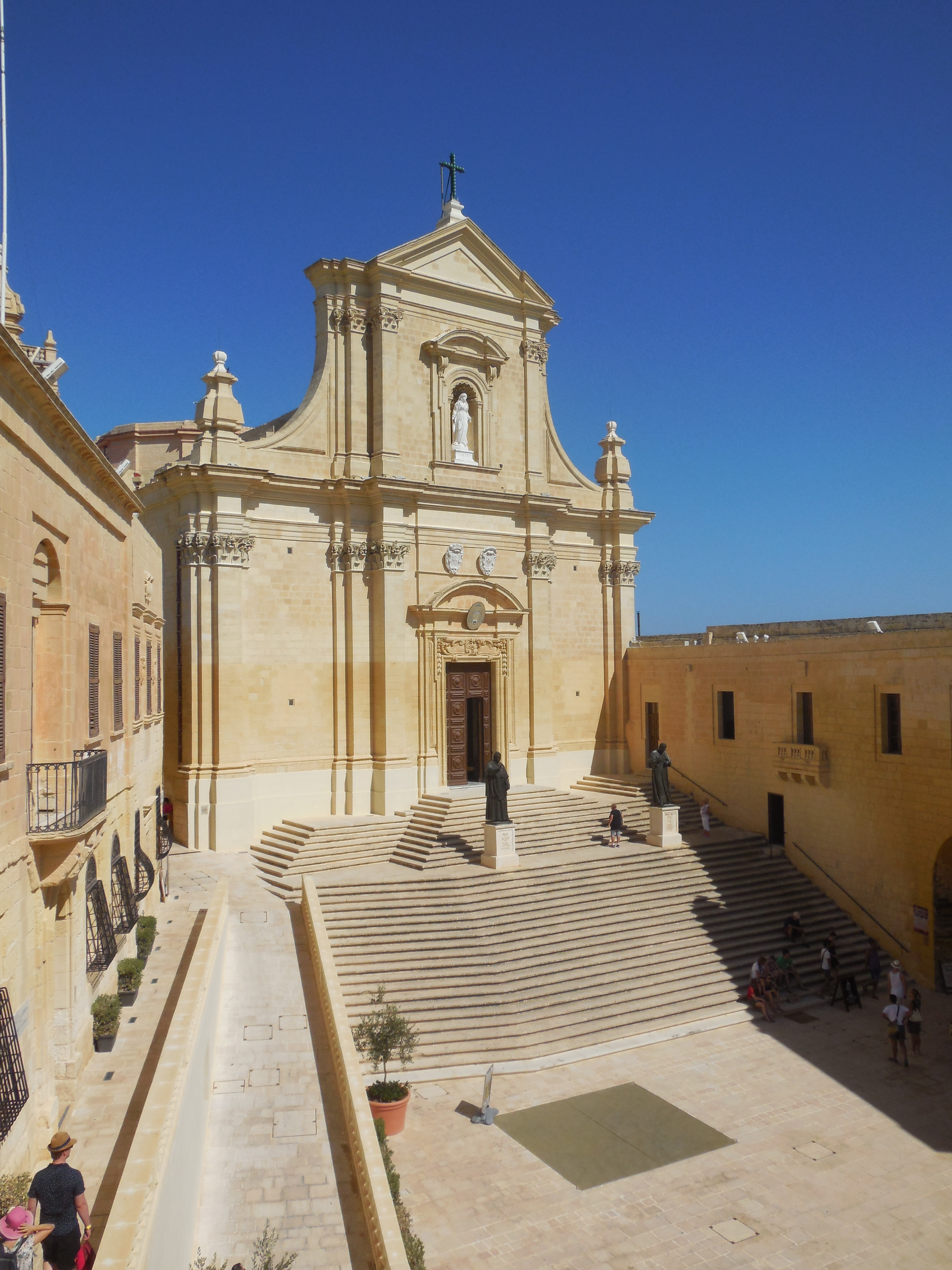 Cathedral of St.Mary This media is about Maltese cultural property with inventory number 00889.